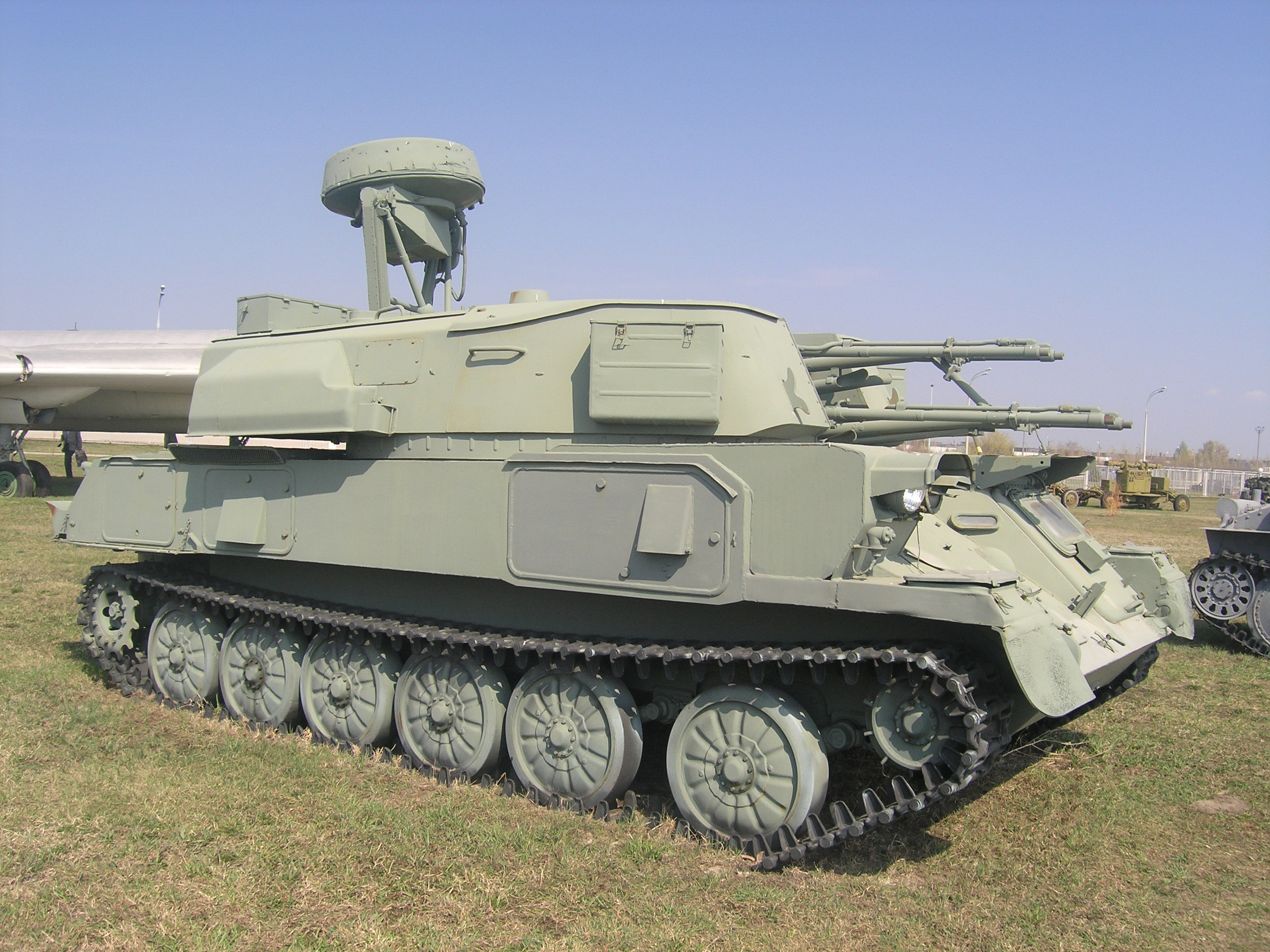 ZSU-23-4 Shilka, Togliatti